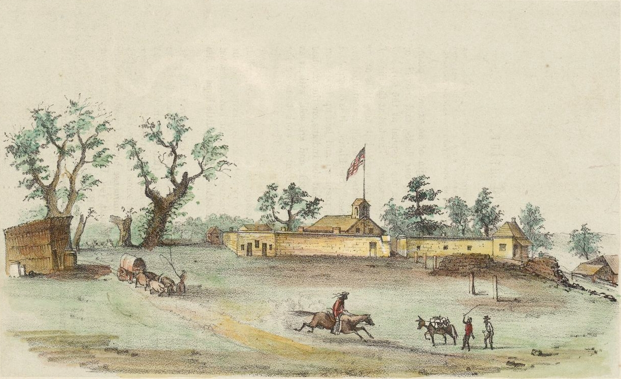 Sutter's Fort in California — in 1849. With U.S. flag in center; covered wagon and pack mule in foreground. Print on paper: lithograph, hand colored 14 x 21.7 cm.